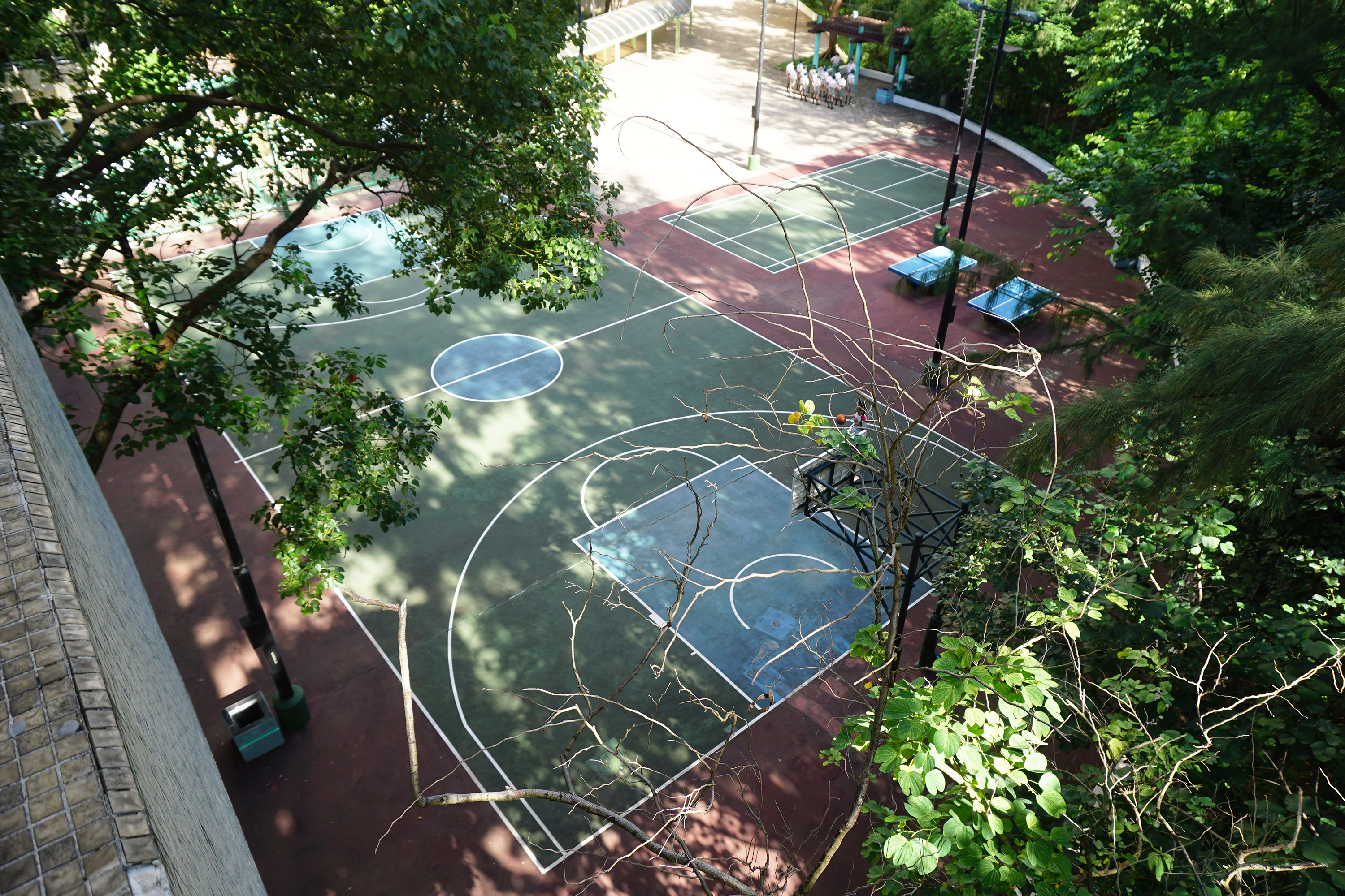 Lung Poon Court in Diamond Hill, Hong Kong.